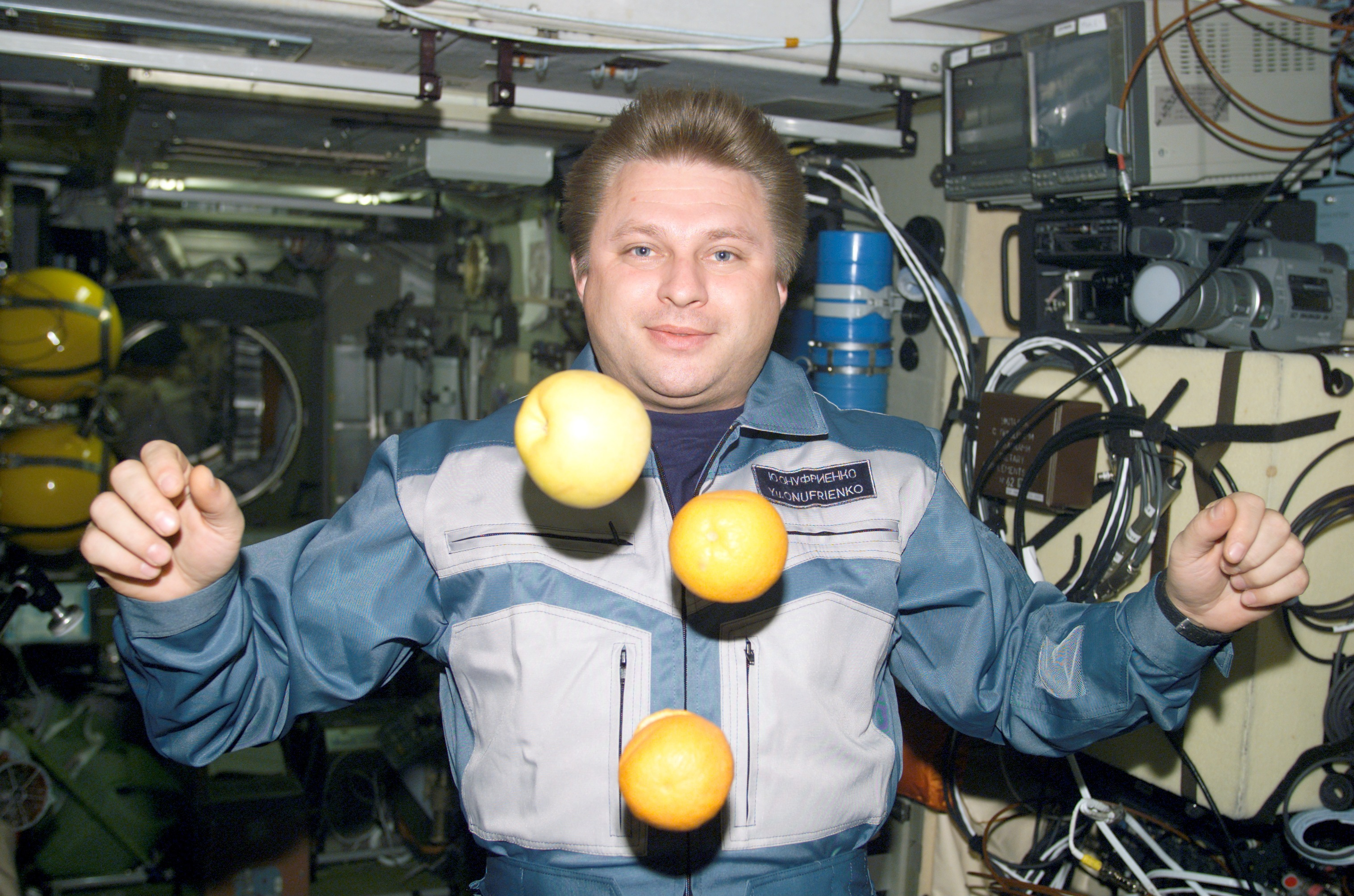 Cosmonaut Yury I. Onufrienko, Expedition Four mission commander representing Rosaviakosmos, is photographed in the Zvezda Service Module on the International Space Station (ISS). Apples and oranges are visible floating freely in front of Onufrienko. The image was taken with a digital still camera.